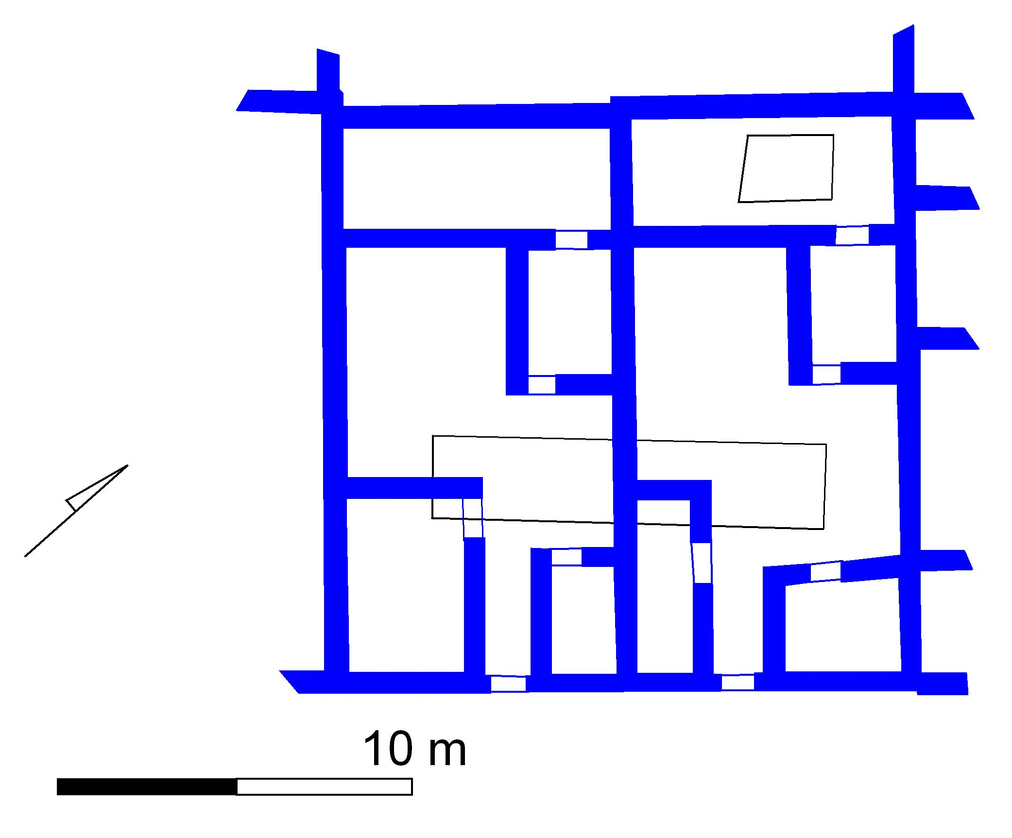 Republican houses at Cosa; redrawn from Bruno/Scott, Cosa IV, Houses 1993, fig. 5 on page 17